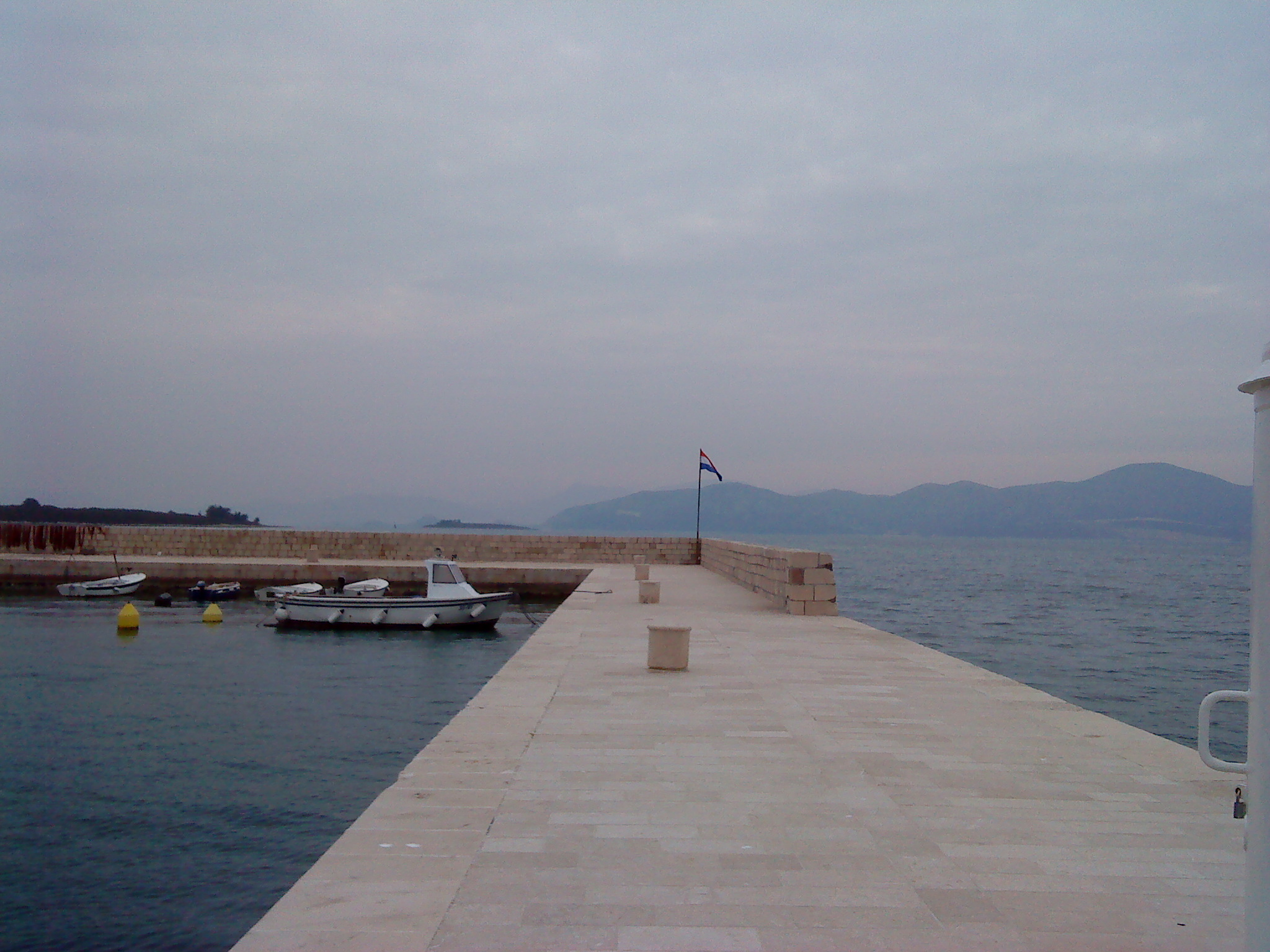 Marina in Drače